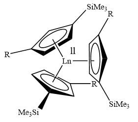 chemdraw